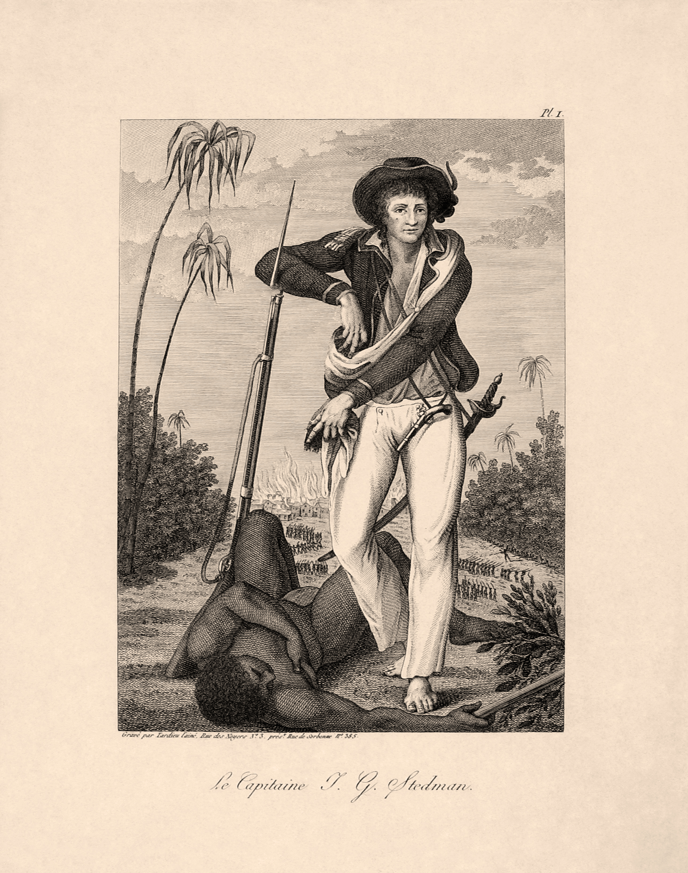 Stedman, J.G., Narrative of a five years' expedition against the revolted negroes of Surinam in Guiana on the Wild Coast of South America from the years 1772 to 1777 : elucidating the history of that country and describing its productions, viz, quadrupedes, birds, reptiles, trees, shrubs, fruits and roots : with an account of the Indians of Guiana and negroes of Guinea, London, 1796.